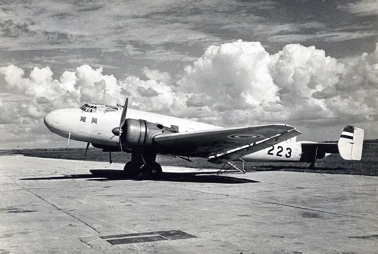 Junkers Ju86Z, Manchukuo National Airways. M-223 "Koryu".